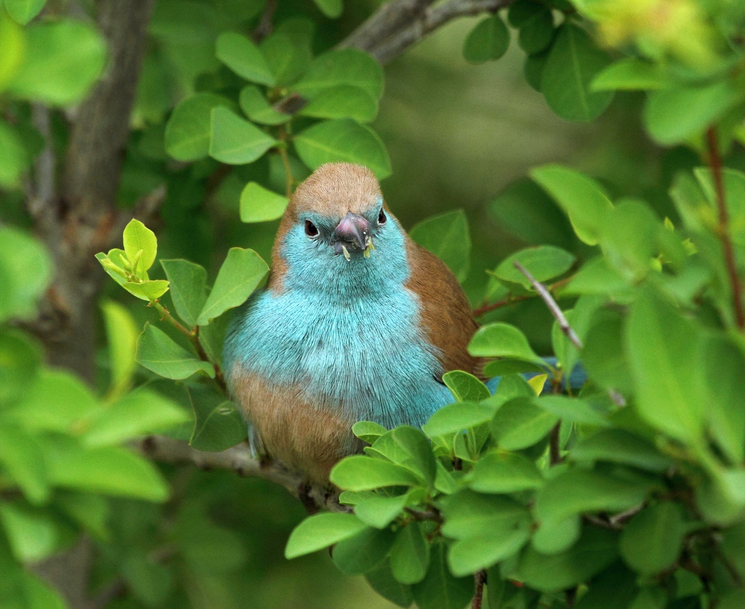 Male blue waxbill Uraeginthus angolensis at Mlondozi picnic site, Kruger National Park.